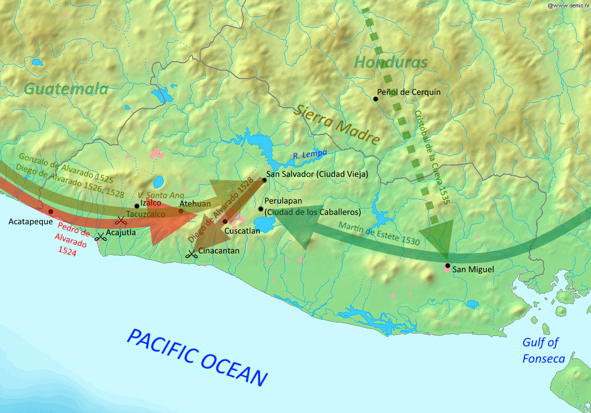 Principal Spanish invasion routes during the 16th century Spanish conquest of El Salvador.